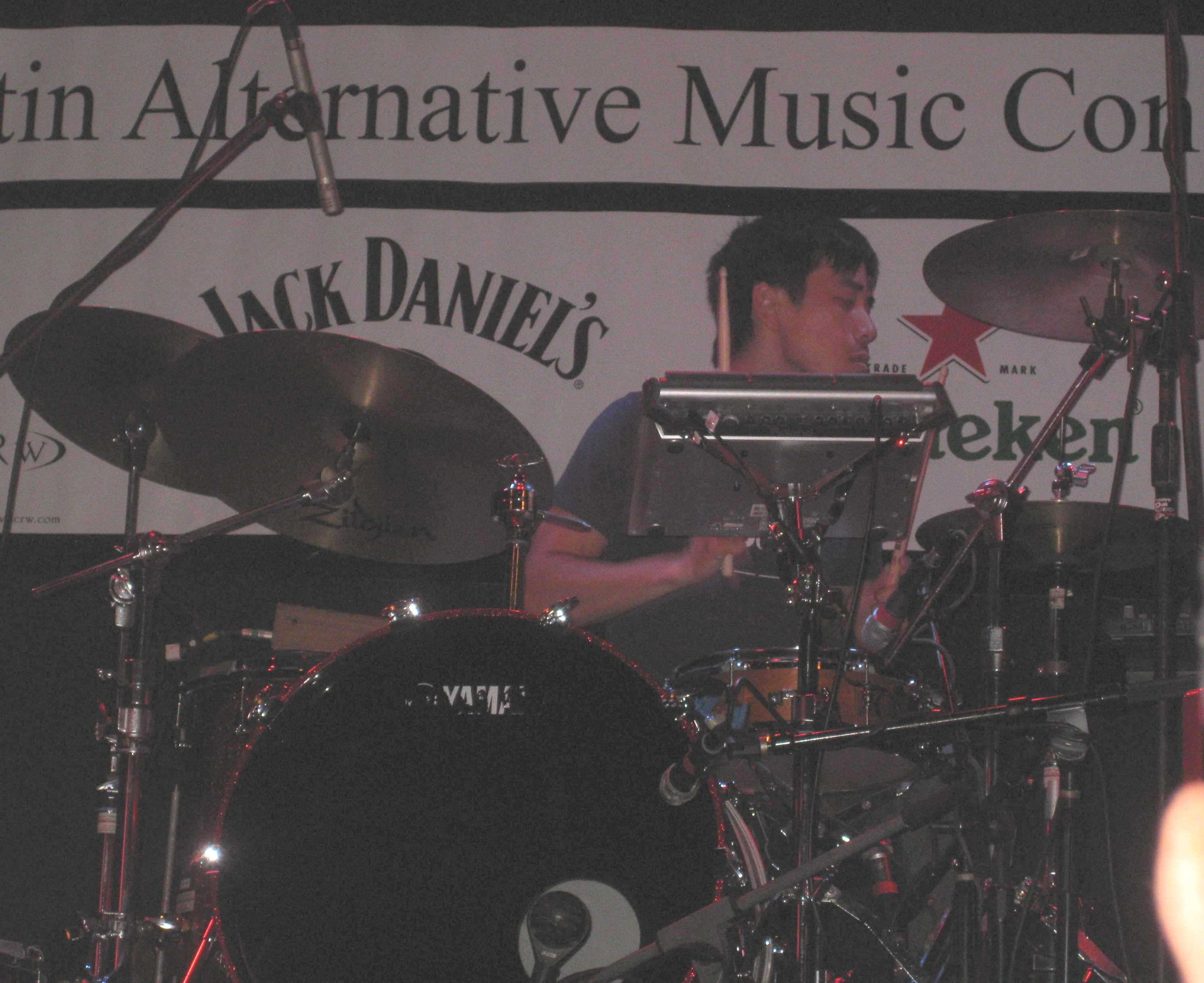 Alex Wong playing full Drum Kit at Bowery Ballroom